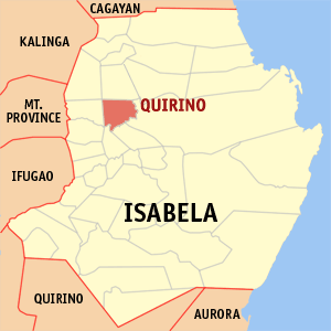 Map of Isabela showing the location of Quirino